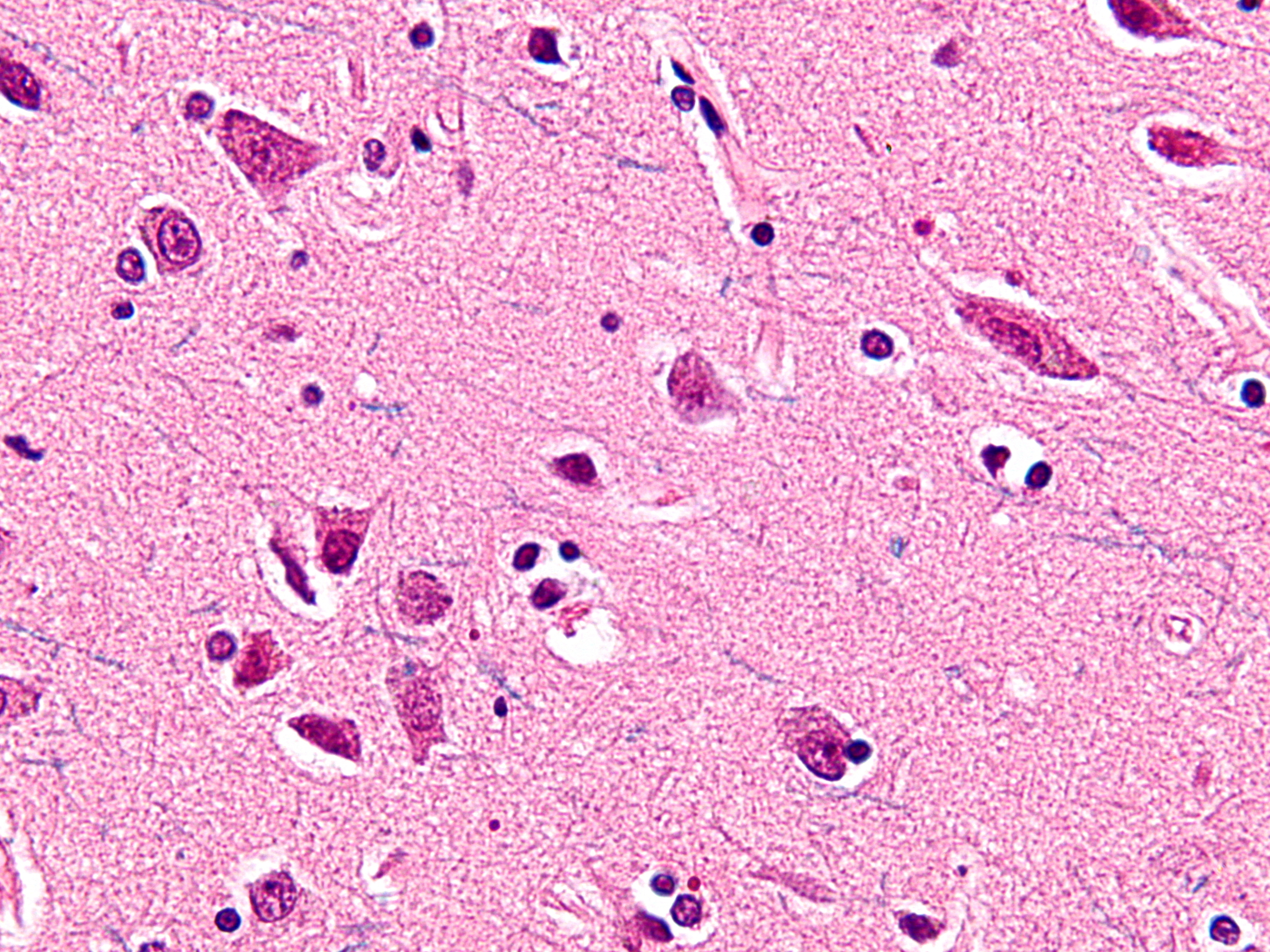 Very high magnification micrograph of the spindle neurons of the cingulate, also known as von Economo neurons. LFB-HE stain. Related images Intermed. mag. High mag. Very high mag. Very high mag.